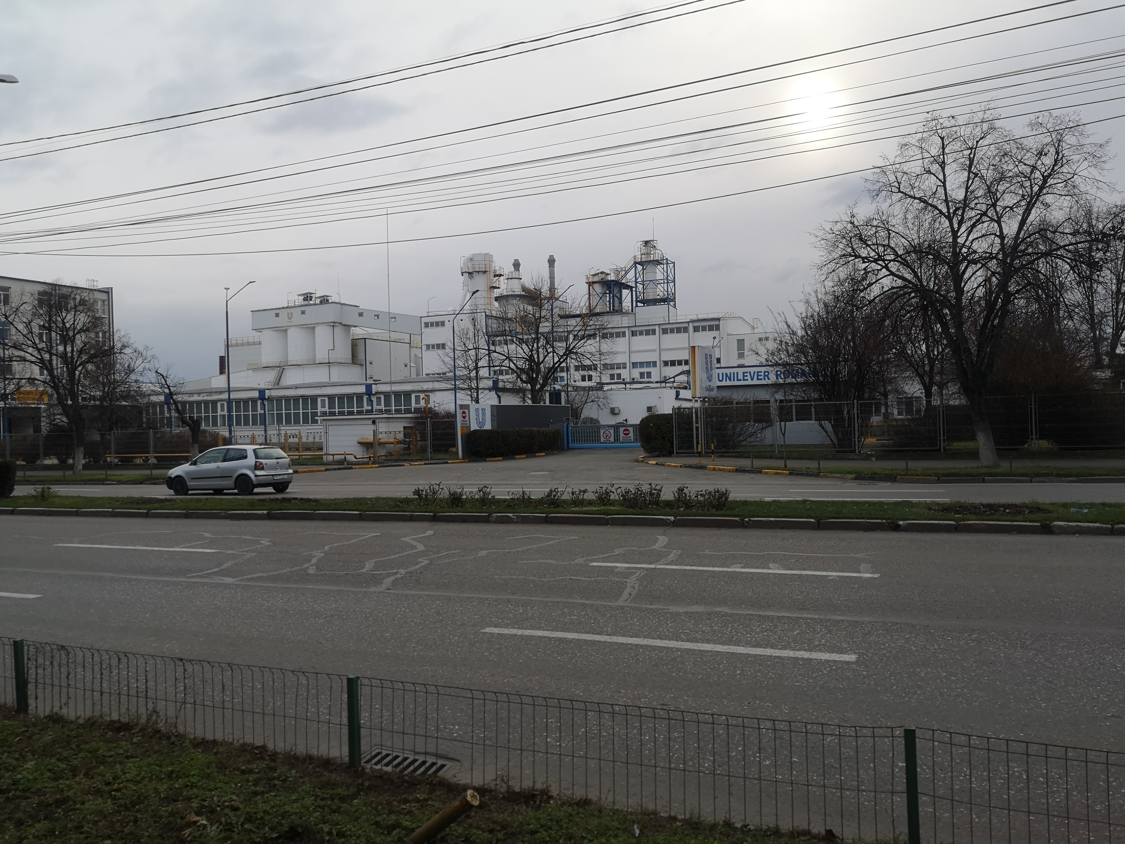 Unilever factory, Ploiești, România